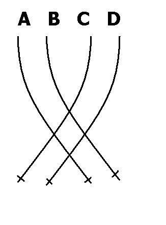 The Thach Weave technique